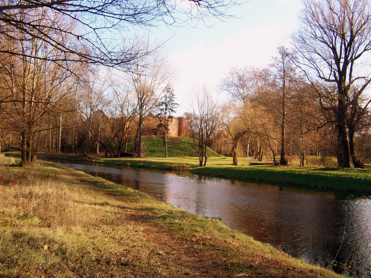 Zamek w Międzyrzeczu od strony zachodniej